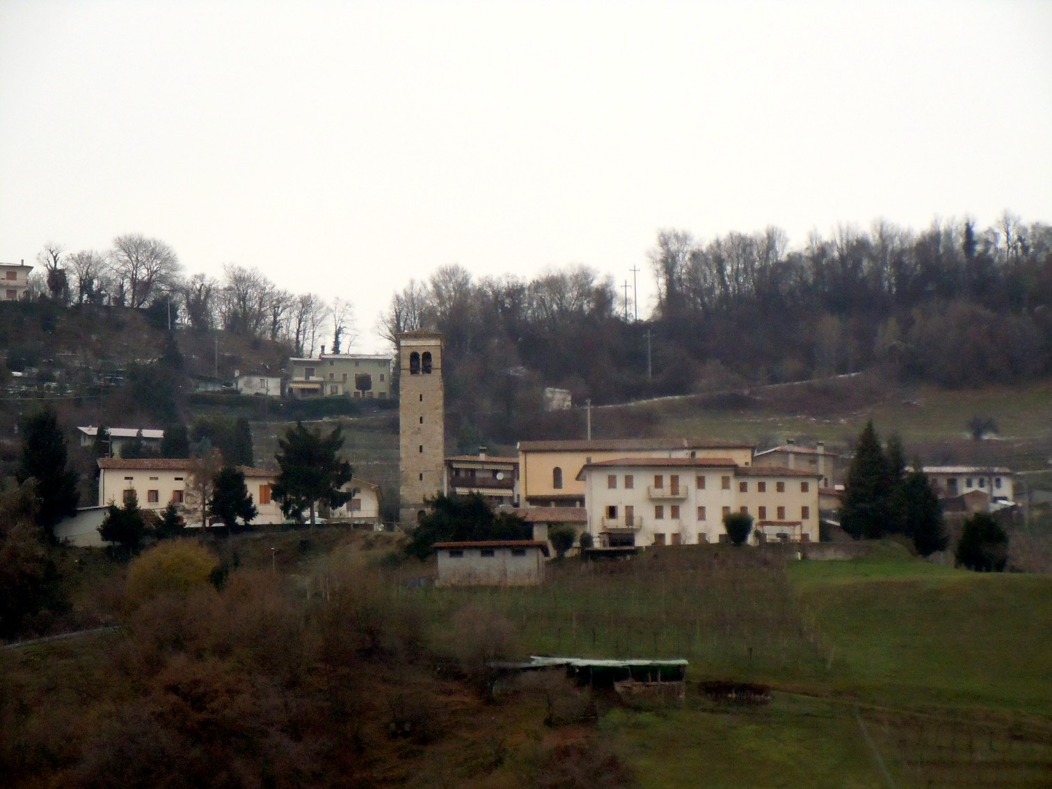 Arfanta